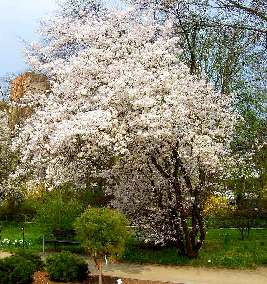 Blooming Prunus nipponica (de: Japanische Alpen-Kirsche) in the Botanical Garden Heidelberg.